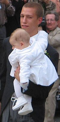 Prince Louis, Tessy Antony and their son Gabriel after their wedding in Gilsdorf.